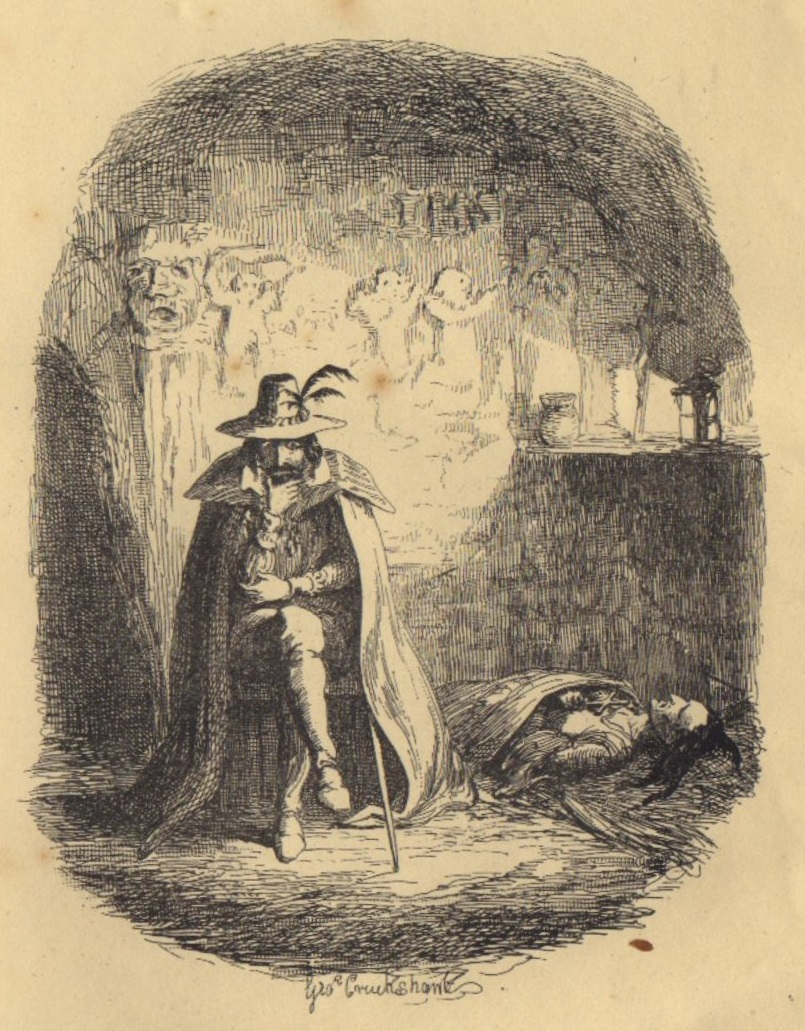 Guy Fawkes in Ordsall Cave. Made by George Cruikshank (1792-1878).